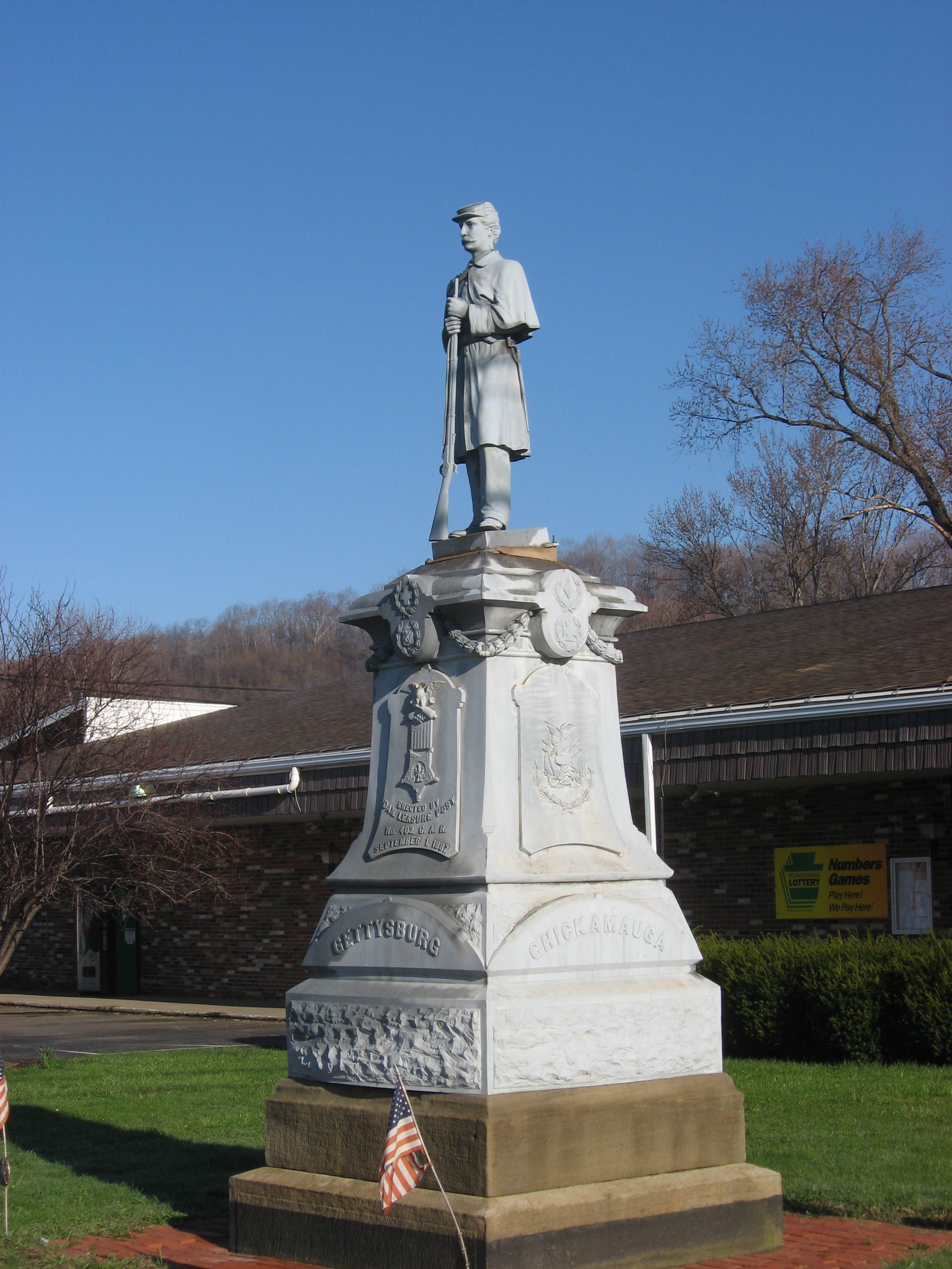 Memorial to the American Civil War at the intersection of Third and Market Streets in Darlington, Pennsylvania, United States, erected by the Grand Army of the Republic in 1887.